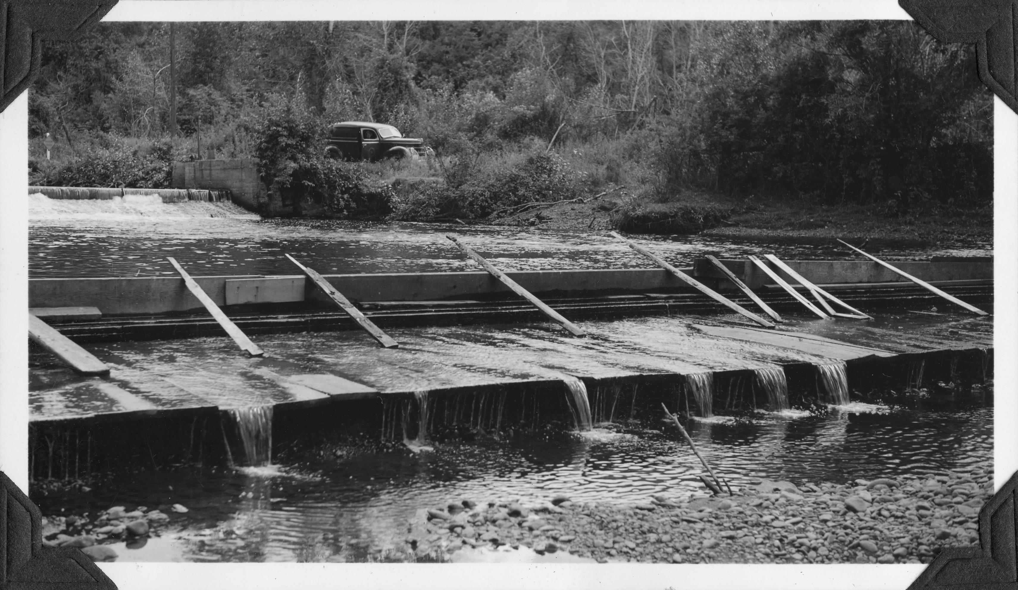 Description/Notes: Diversion dam for flour mill at Union, Oregon. Original Collection: Pacific Northwest Stream Survey Collection Item Number: Album2 pg.6 Image 1 You can find this image by searching for the item number by clicking Want more? You can find more We're happy for you to share this digital image within the spirit of The Commons; however, certain restrictions on high quality reproductions of the original physical version may apply. To read more about what “no known restrictions” means, please visit the or contact staff at the OSU Special Collections & Archives Research Center for details.